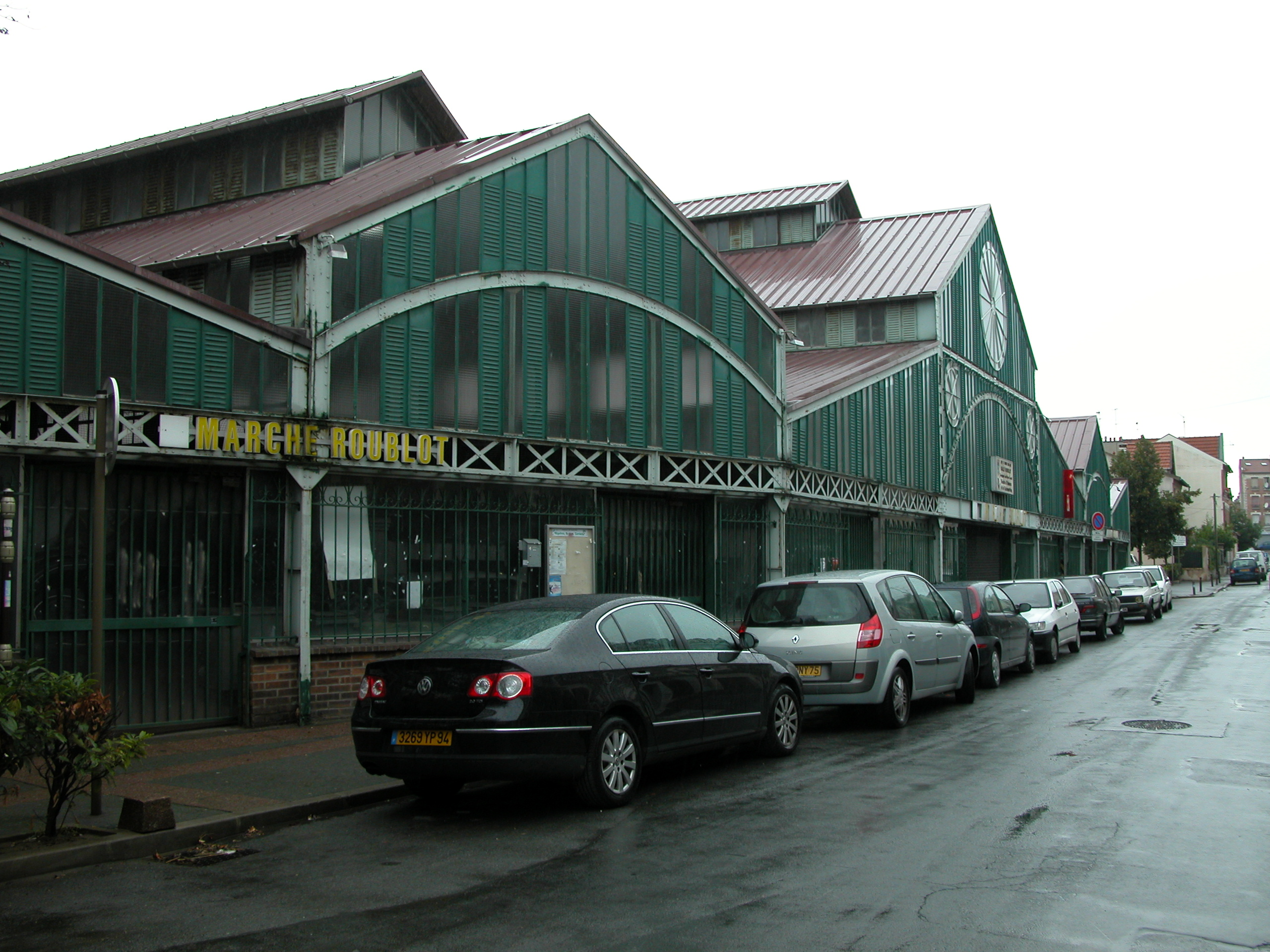 Halles Roublot in Fontenay-sous-Bois